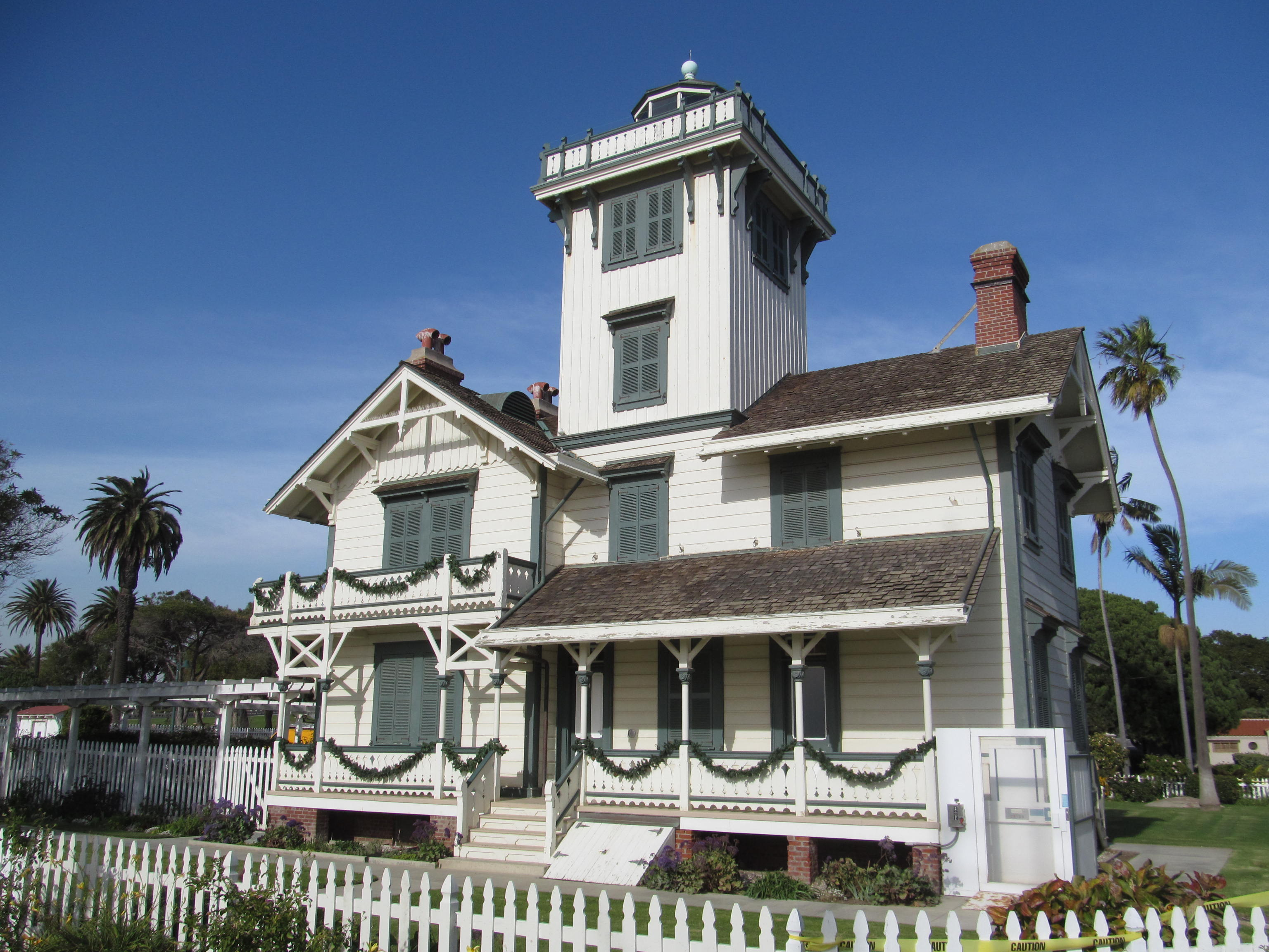 Point Fermin Lighthouse Park - San Pedro, California